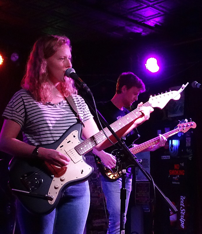 Bad Bad Hats performing at The Saint in Asbury Park, NJ, May 15, 2019. Photo by LH Collins.